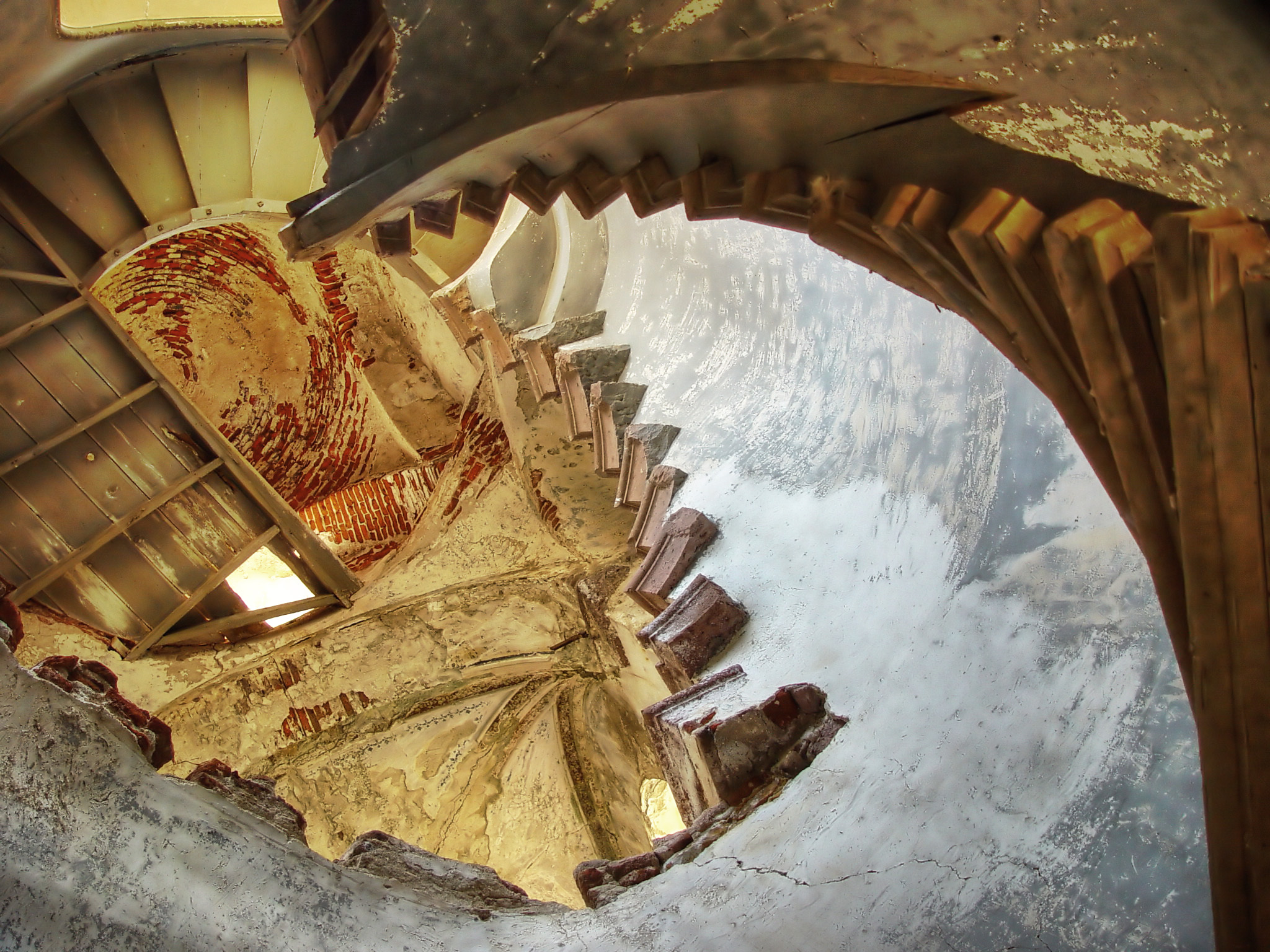 Cunda, the large former Greek Orthodox cathedral, main landmark of Alibey village remains now abandoned and dilapidated. Taksiyarhis cathedral